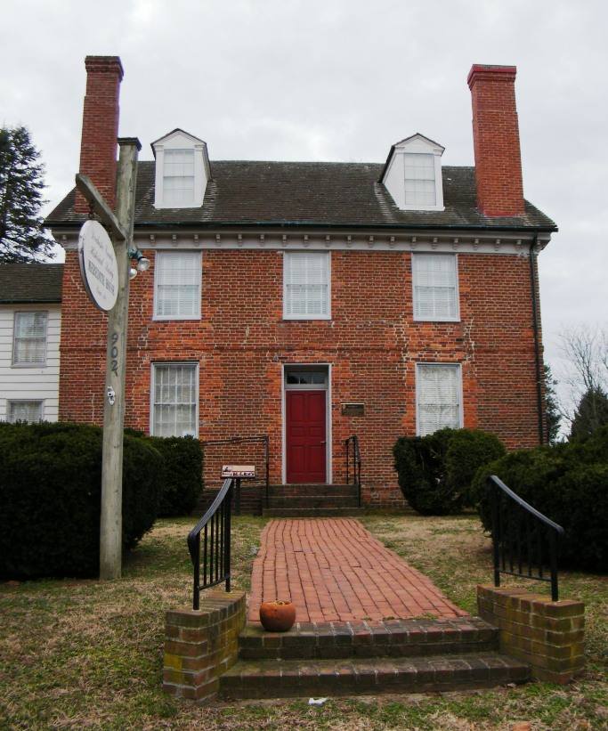 "Once a focal point of a large farm as LaGrange, Meredith House is is one of the few remaining Georgian houses in Cambridge. Purchased by the Dorchester County Historical Society in 1959, the house is furnished with antiques reflecting the heritage of Dorchester County." Part of the LaGrange historical site.